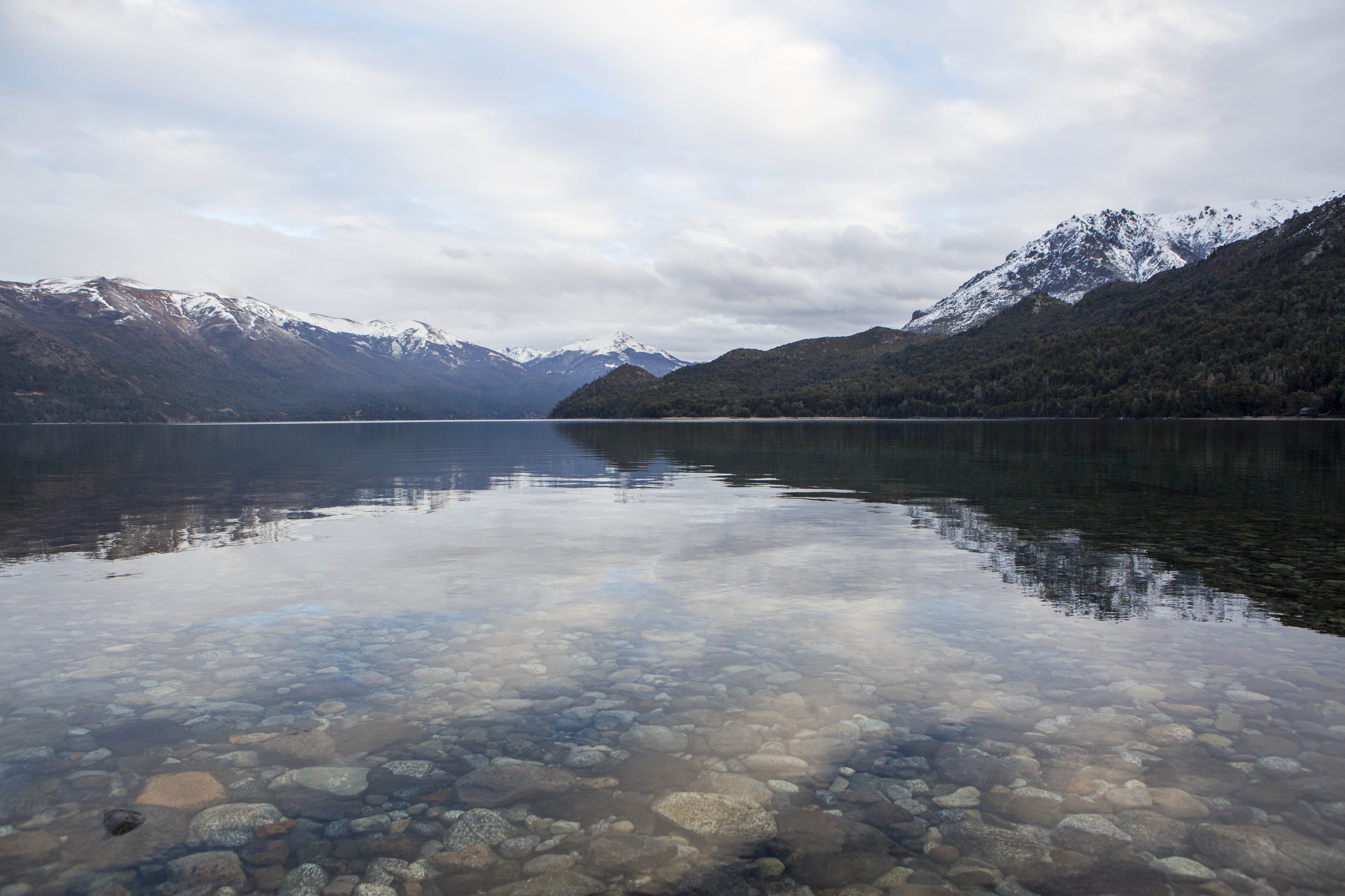 coordinate